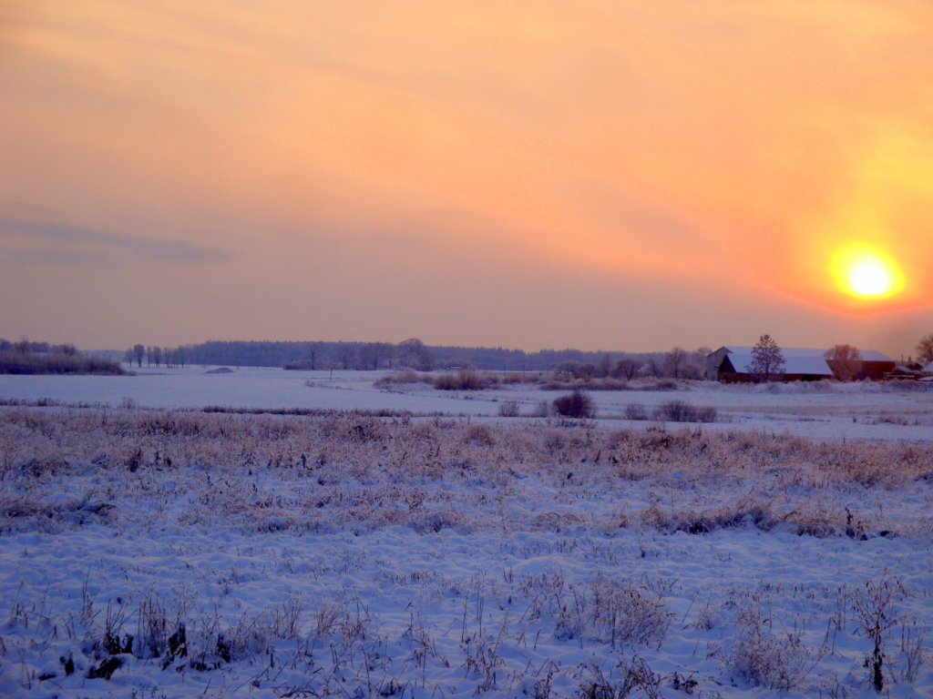 The first snow